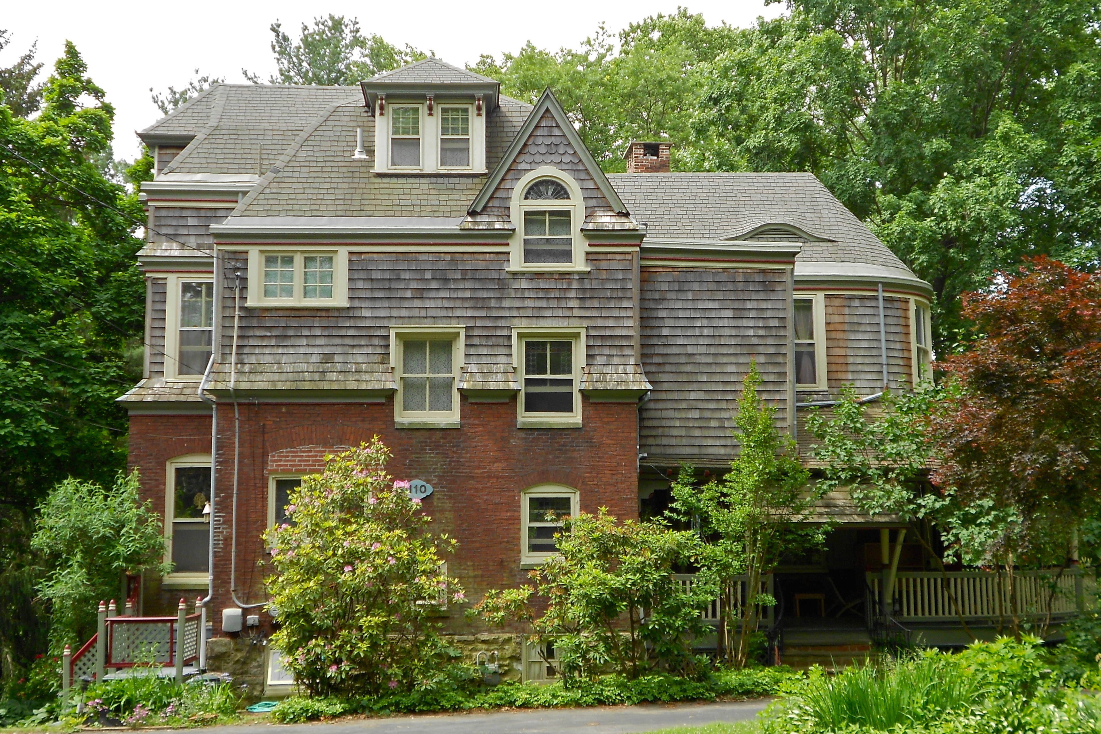 Front facade of Idlewild — a historic house near Media, Pennsylvania. Designed c.1890 and lived in as a summer house by architect Frank Furness.